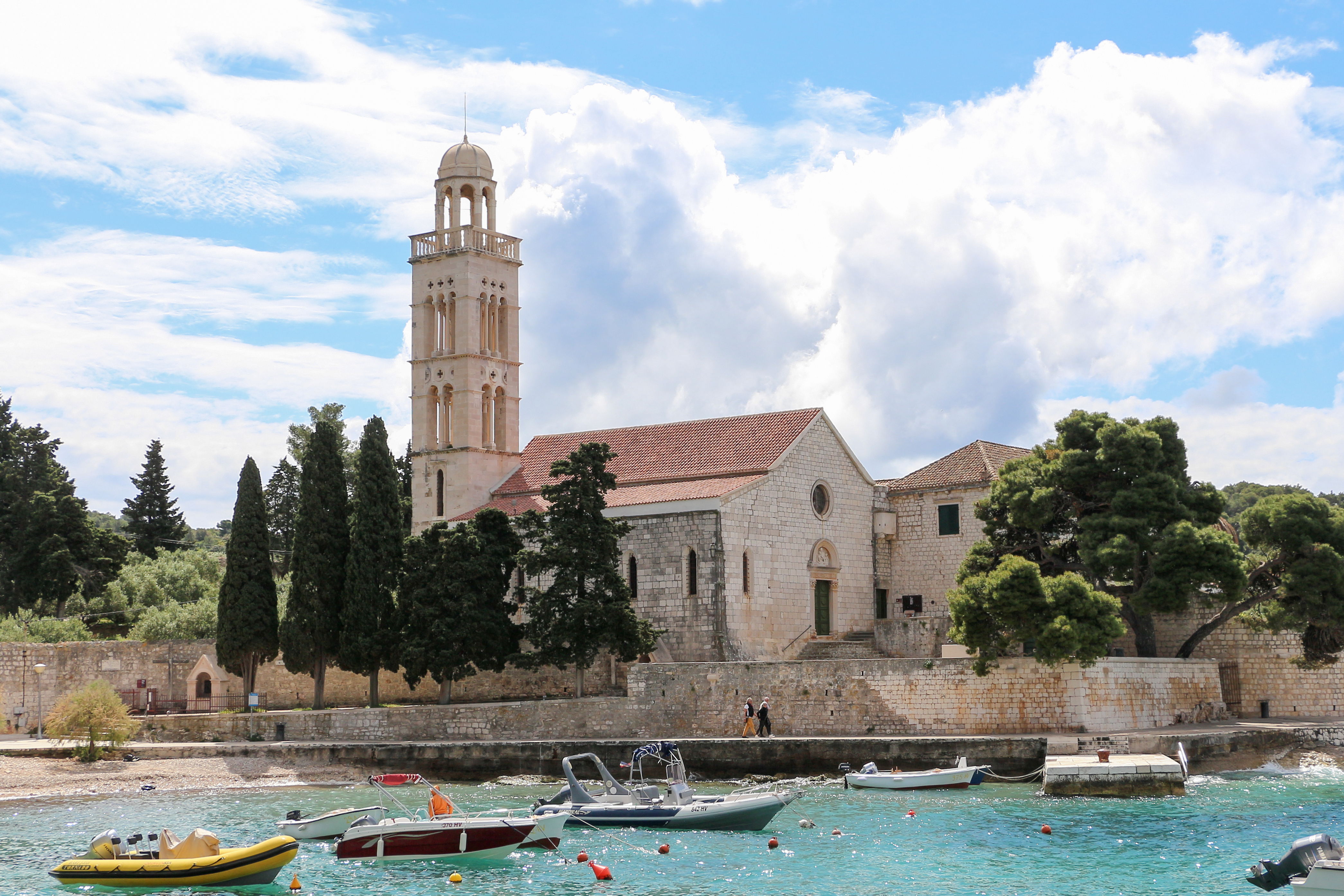 Franciscan Monastery and the Church of St. Mary of Grace, Hvar, Croatia